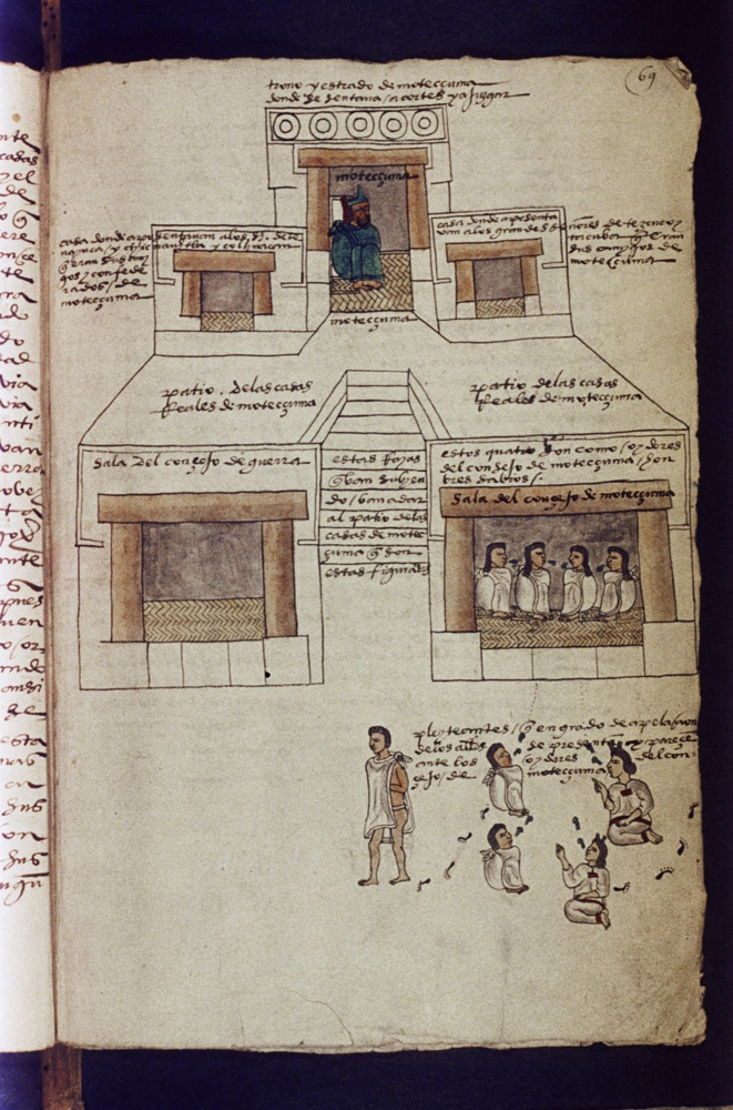 Folio 69r from the Codex Mendoza. Perhaps continuing the theme of imperial justice from fol. 68r(3), this page shows a schematic plan of the palace of the last emperor, Motecuhzoma Xocoyotzin ("Angry Lord", "The Younger'). The emperor sits, in audience and to judge, in his personal quarters, the 'Ruler’s House' (Tlatocacalli). He is the only figure in Codex Mendoza to be portrayed with a beard (corroborated by a Spanish source). On either side of the Ruler’s House are guest houses to accommodate the rulers of allied city-states. They look out onto an extensive courtyard. The steps at the centre seem to lead down to ground level. On the left is the ‘Council Hall of War’ (warriors’ house) and on the right ‘Montezuma’s Council Hall’ in which sit his four appeal-judges; seated below them are four litigants, two men perhaps being accused by two women, whilst another man walks away. Shelfmark: MS. Arch. Selden. A. 1